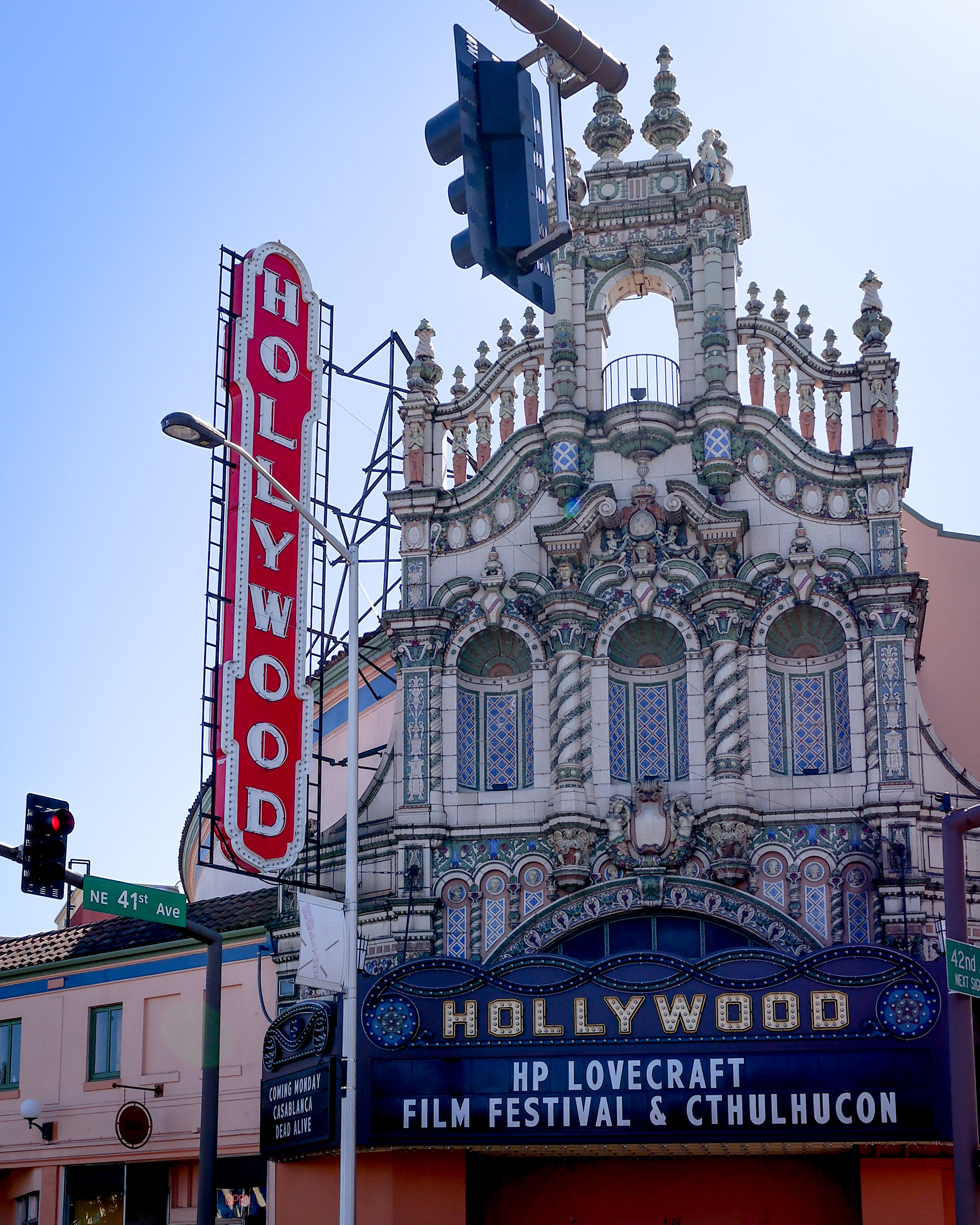 The H.P. Lovecraft Film Festival and CthulhuCon at the Hollywood Theater in Portland, Oregon